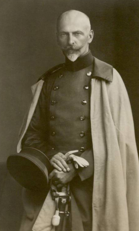 Prince Frederick John of Saxe-Meiningen.